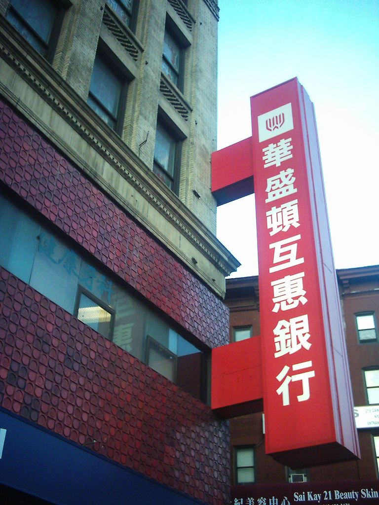 Washington Mutual (華盛頓互惠銀行 Huáshèngdùn Hùhuì Yínháng) Canal Street and Baxter branch in Chinatown, New York City - 221 Canal Street